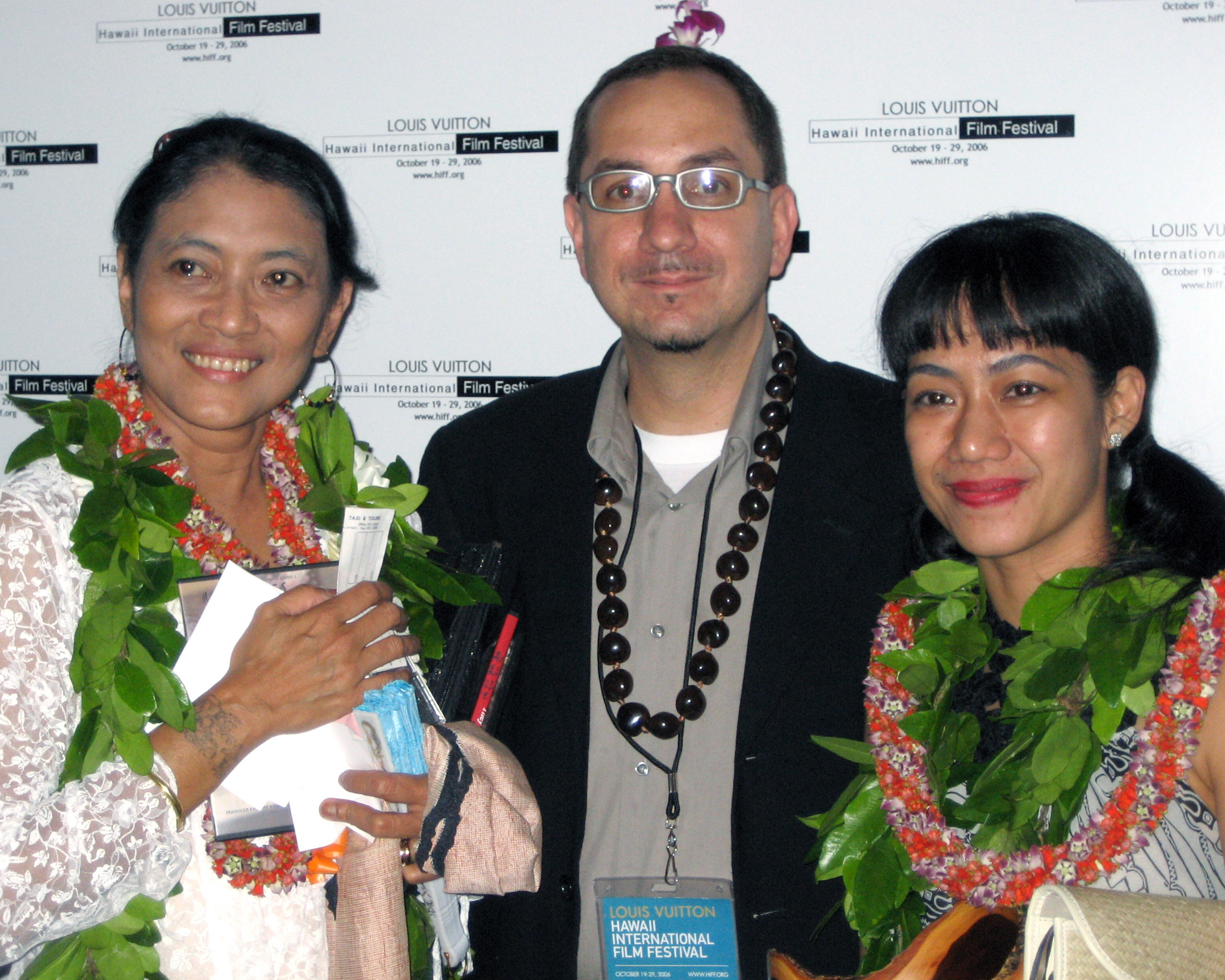 I am posing with two incredible woman who are creating a new independent cinema in post-Sueharto Indonesia. Nia's film, in which Jajang acted, won the festival's top honors here in Hawaii in 2006. I was so happy to have come across the film in Tribeca, so happy to screen it in Hawaii and so happy that I could bring them here for the festival. Unfortunately, I look horrible.